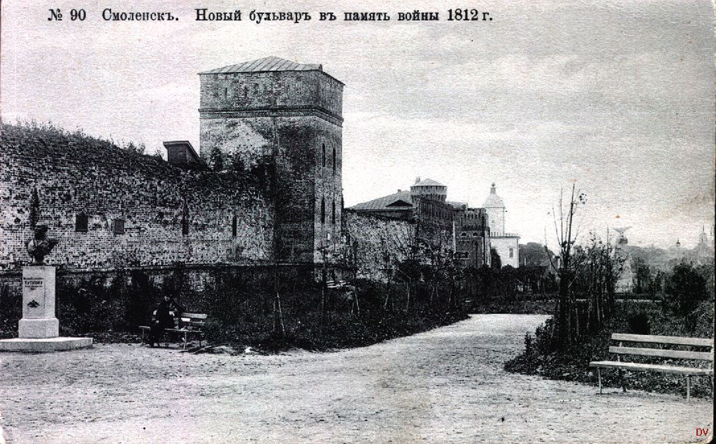 Boulevard in 1812 (now Square Heroes Memorial) with a bust of Kutuzov.